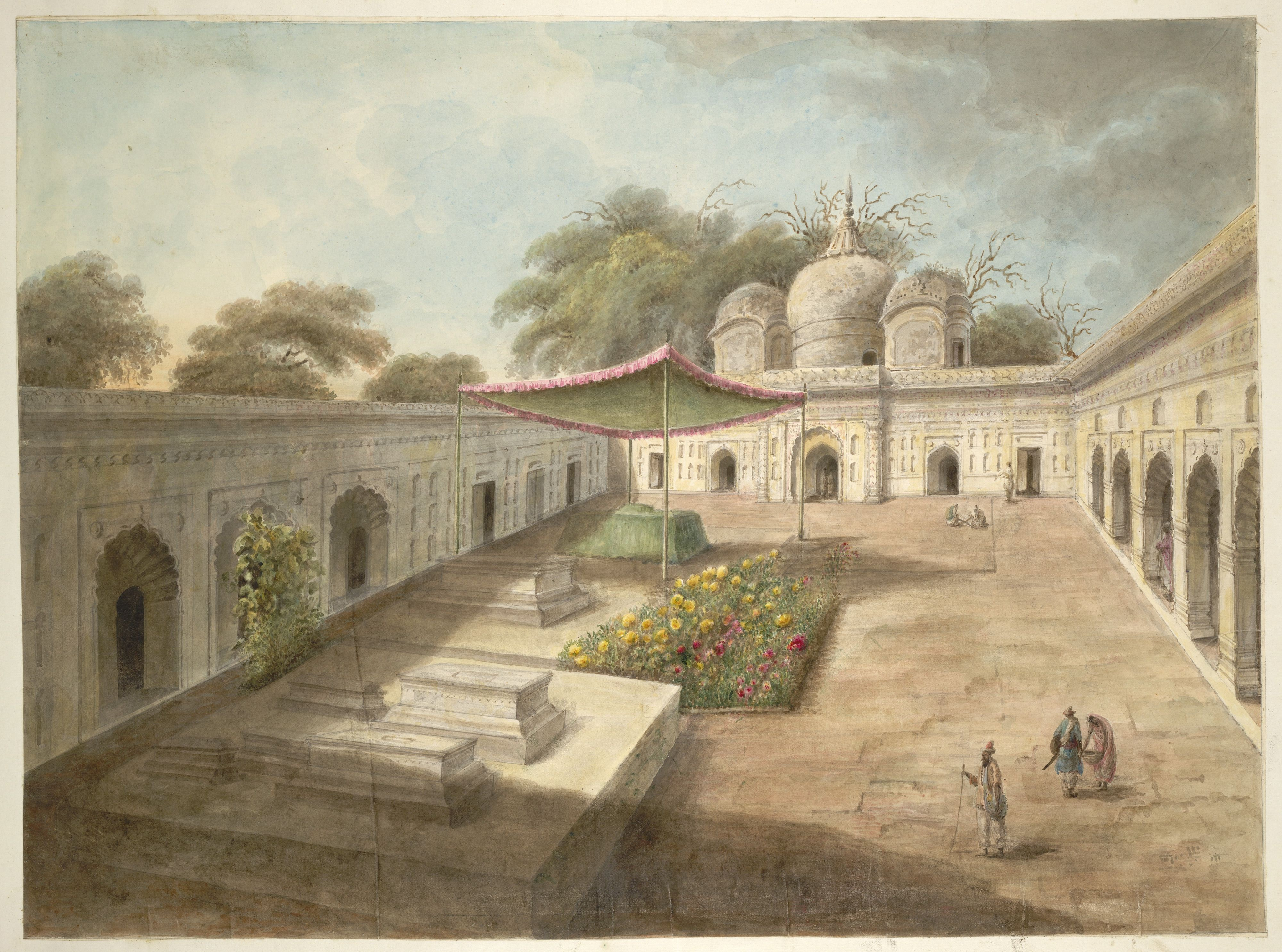 A Mosque with tombs and shrine in its courtyard, Najibabad, 1814–15.